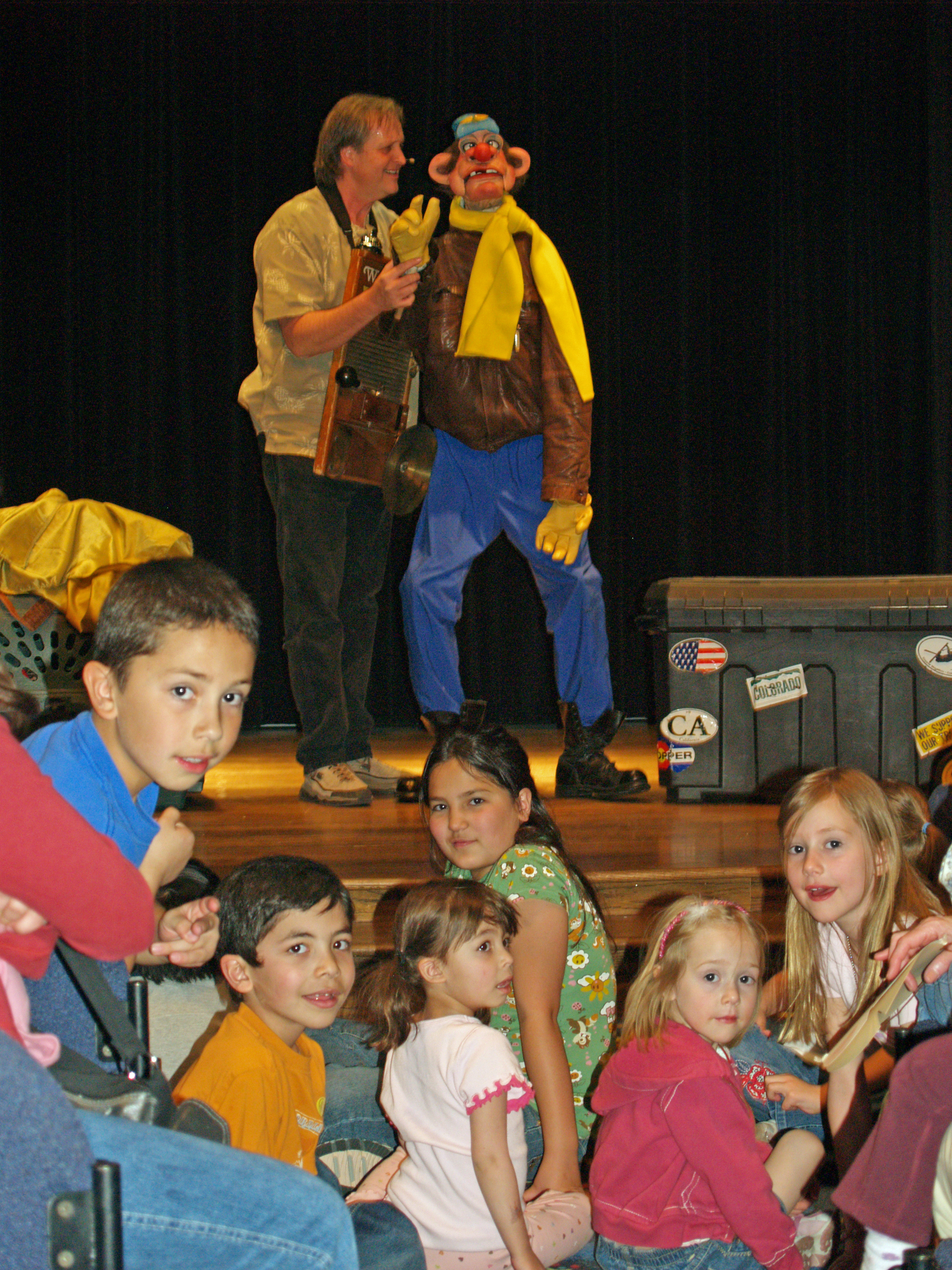 Ventriloquist Wayne Francis calls attention to the photographer as he entertains children at the Pueblo, Colorado Buell Children's Museum.